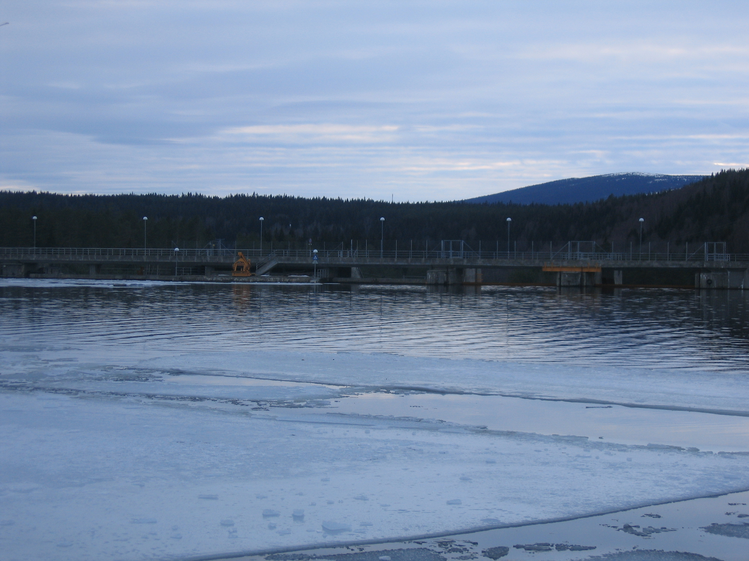 Løpet hydroelectric powerplant in Åmot, Hedmark, Norway.